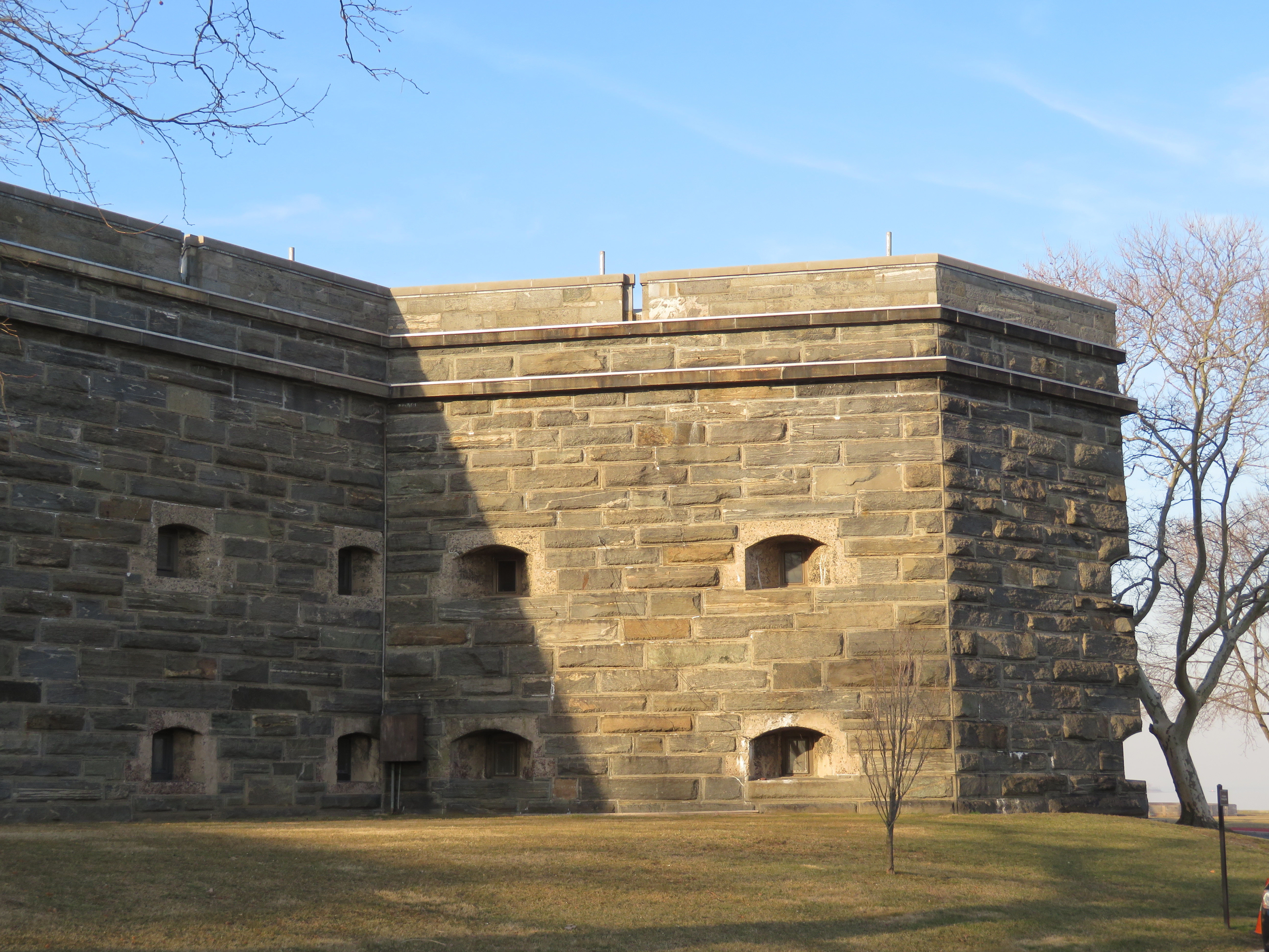 Picture of the middle bastion at Fort Schuyler, Bronx, NY